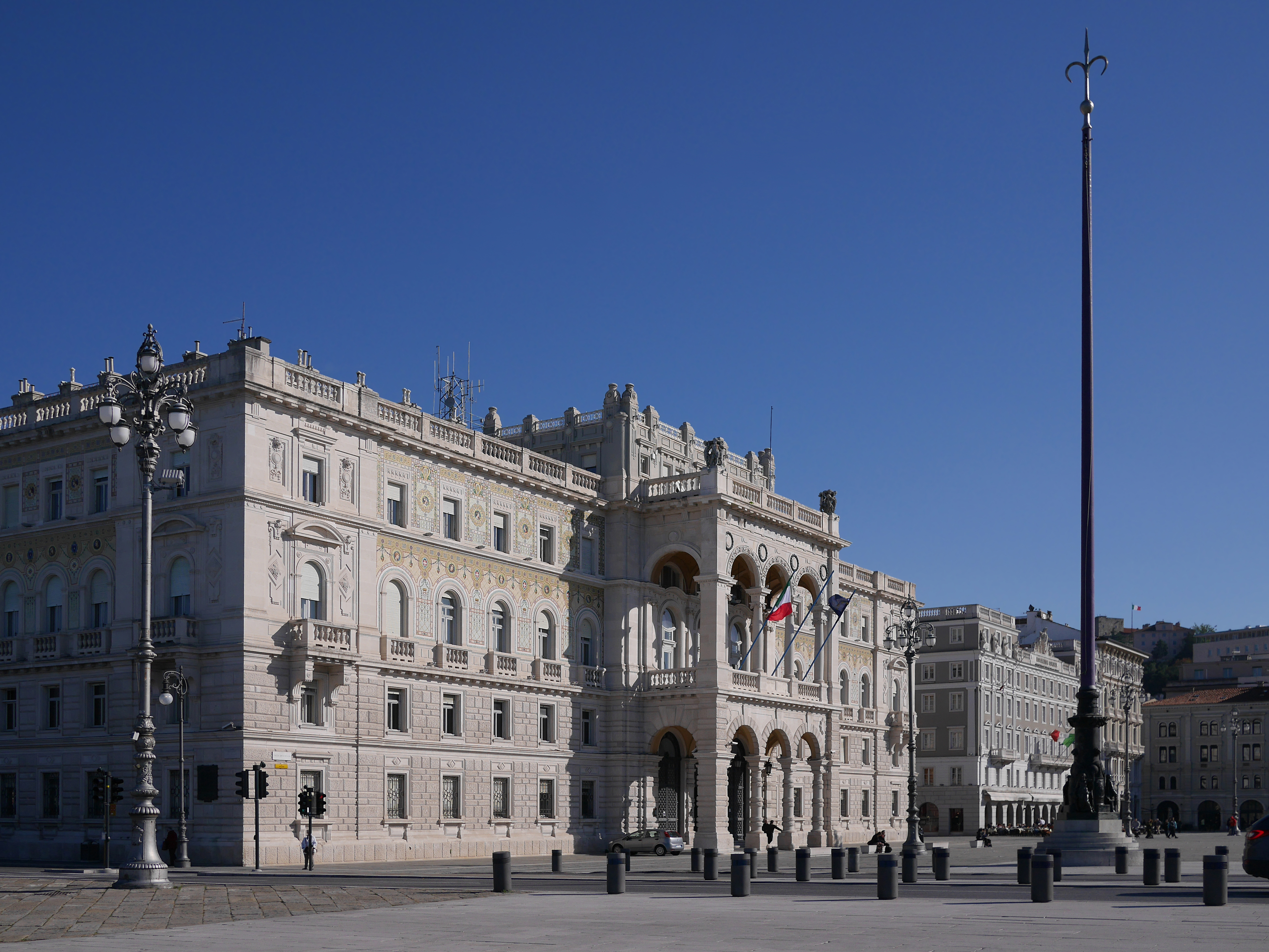 Governor palace, Unity square in Trieste, Italy. This photograph was taken with an Olympus E-P5